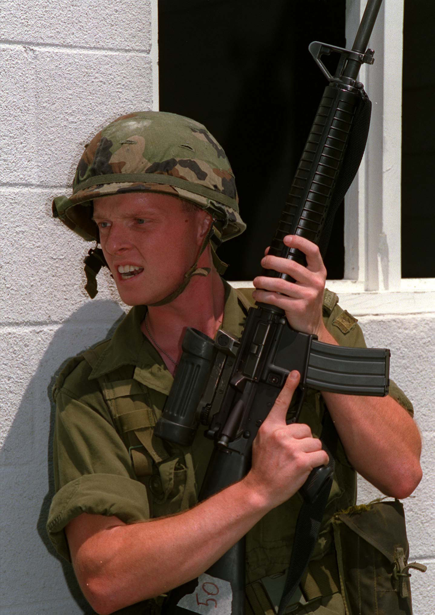 A Canadian soldier, Sgt Jim Meek armed with a C7A1 assault rifle, prepares to enter a building during room clearing training at the Military Operations in Urban Terrain (MOUT) training facility during Situational Training Exercise Two (STX-2). STX Two trains troops on the use of defensive techniques in urban environments.